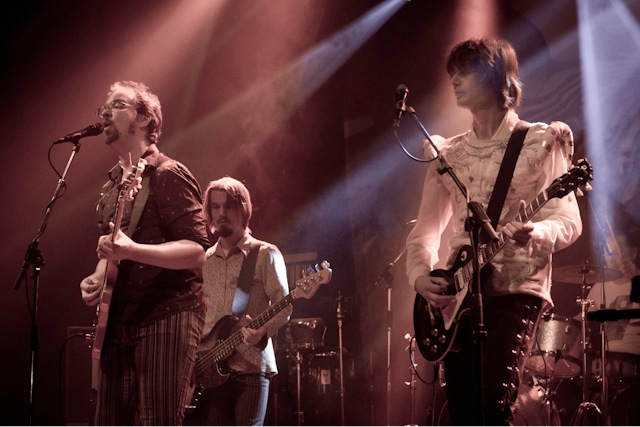 A Finnish rock band Jeavestone performing at the club Tavastia, Helsinki, Finland, 2012.